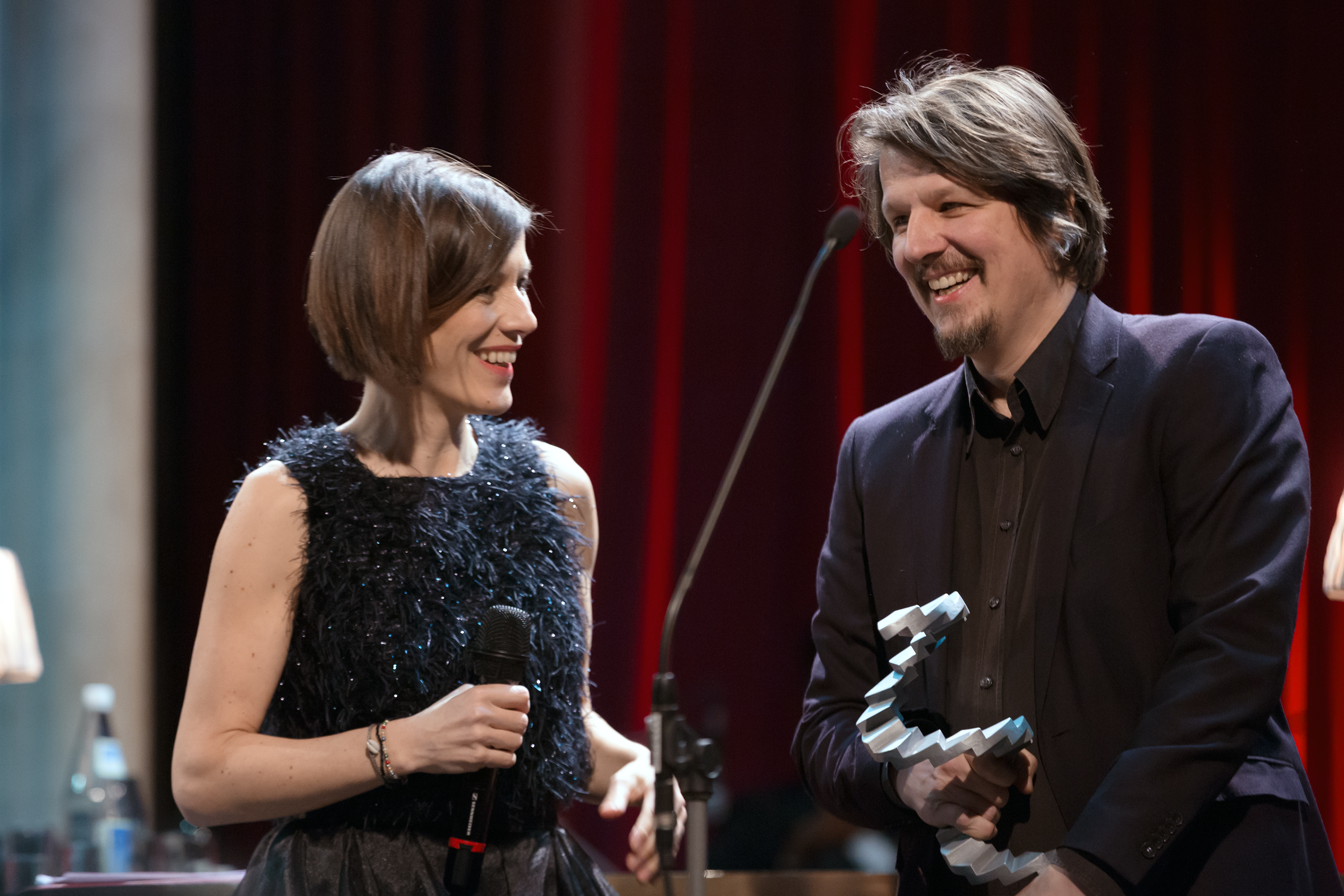 Pia Hierzegger, presenter of the Austrian Film Awards 2017, with Hannes Salat, winner for best scenic design (Stille Reserven); Rathaus, Vienna, Austria.